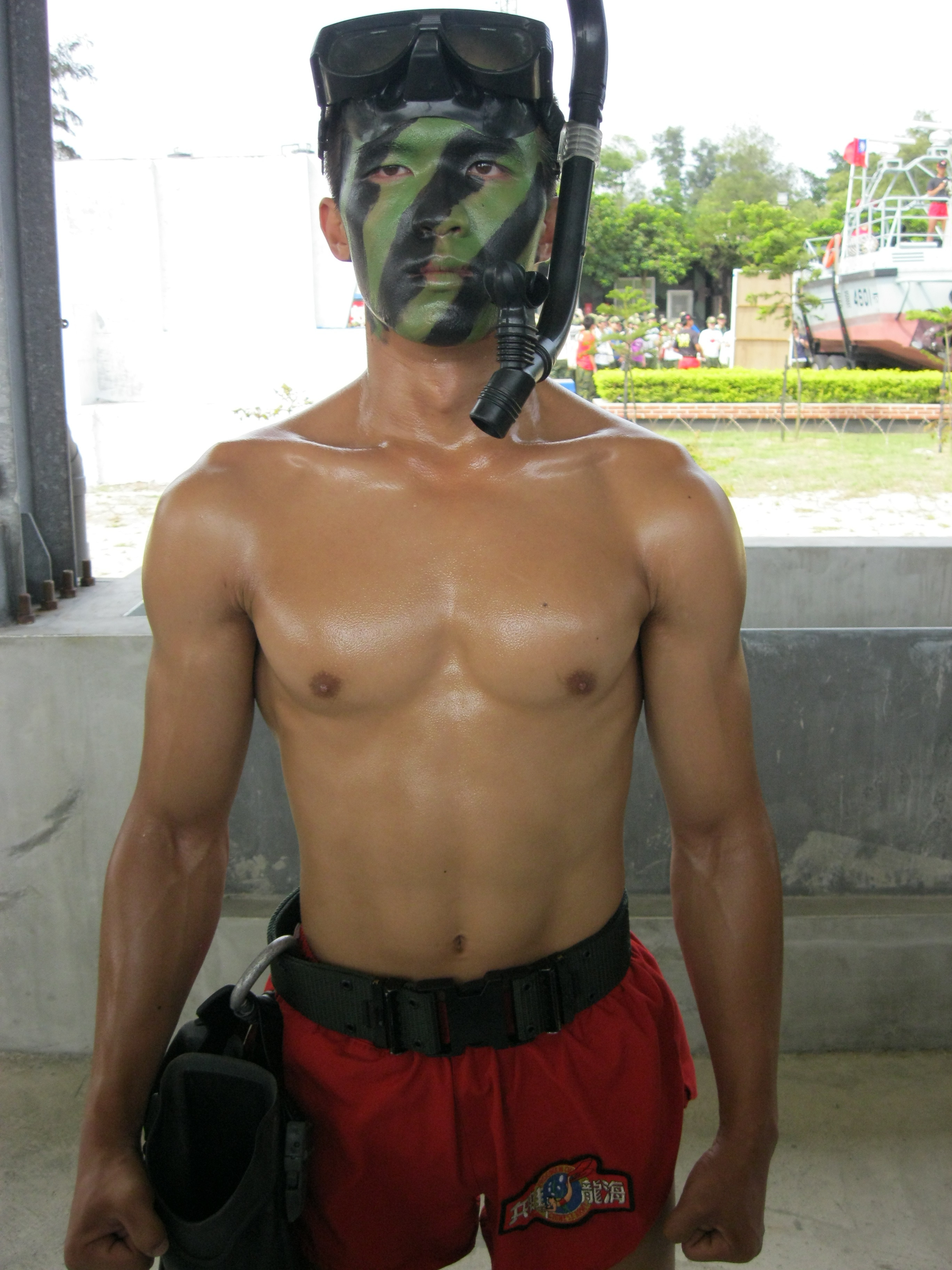 Army 101st Amphibious Reconnaissance Battalion (Taiwan)